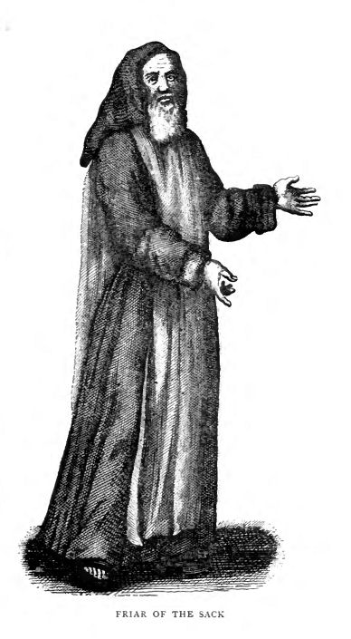 Published in London